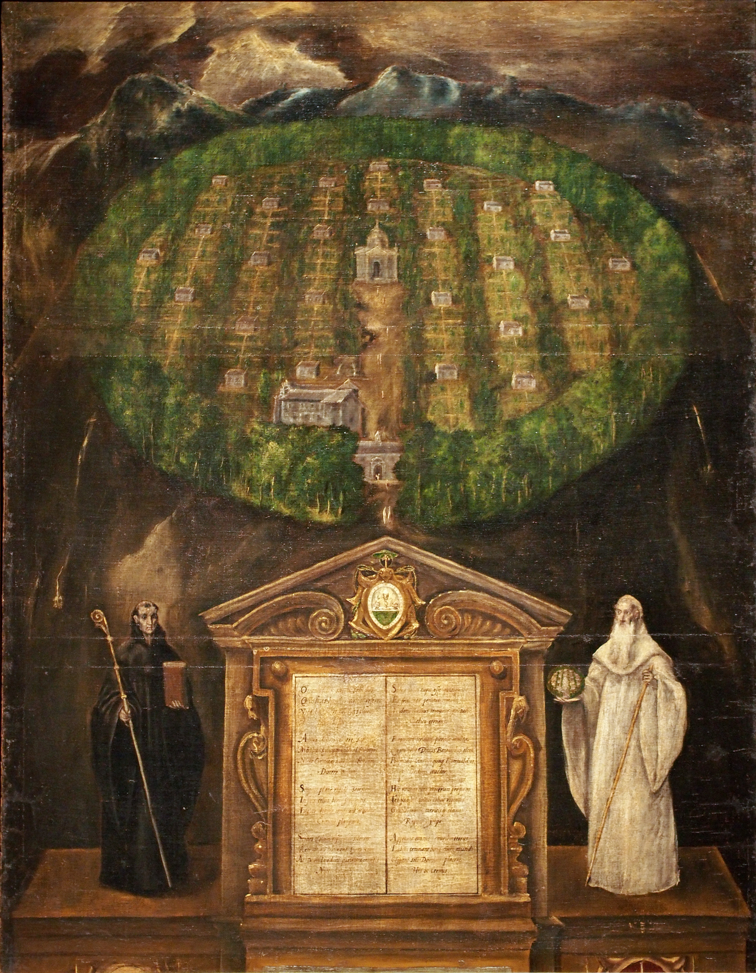 Allegory of Camaldolese Order.